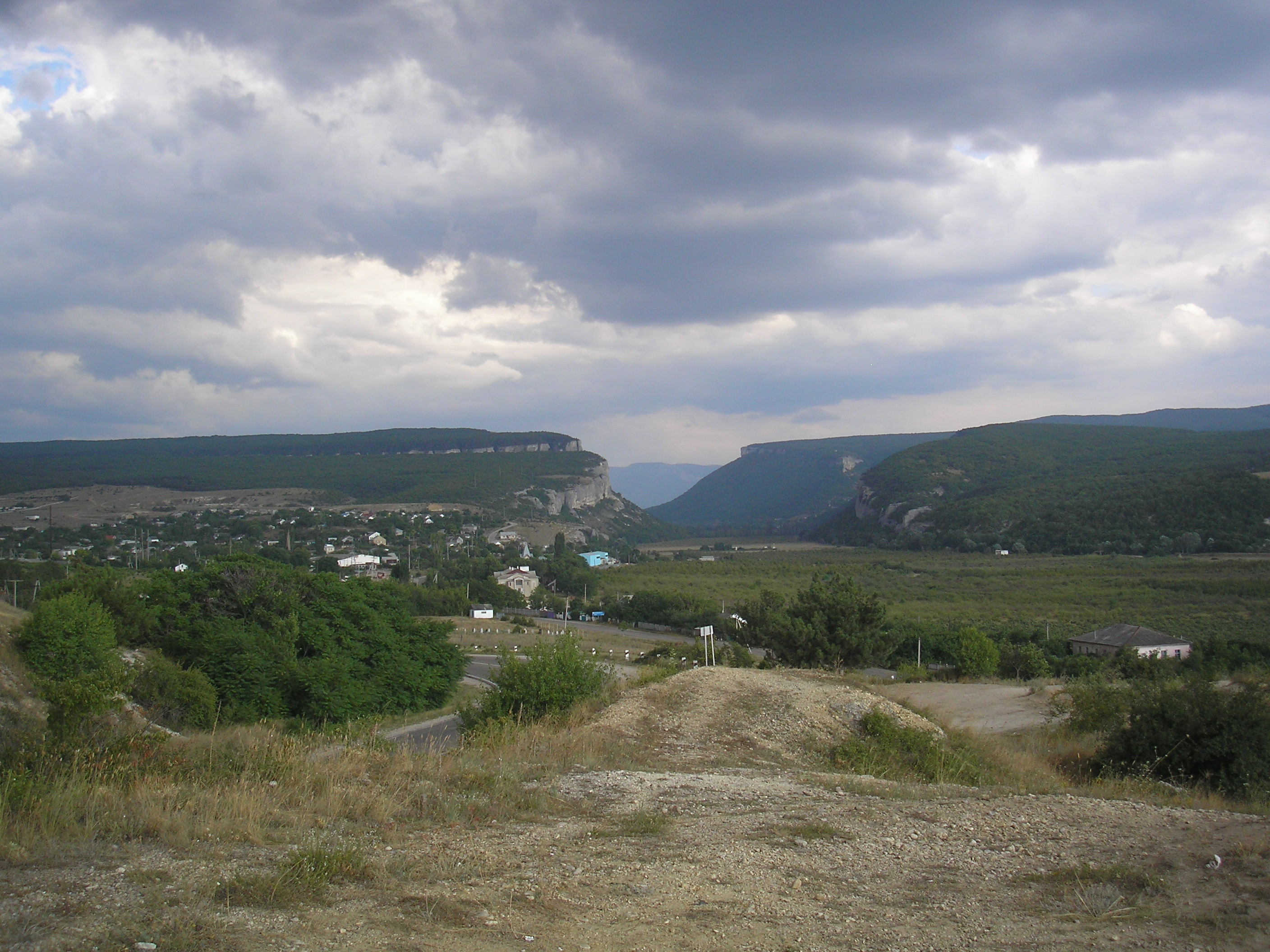 Village Tankovoe, Bakhchisaray Raion.